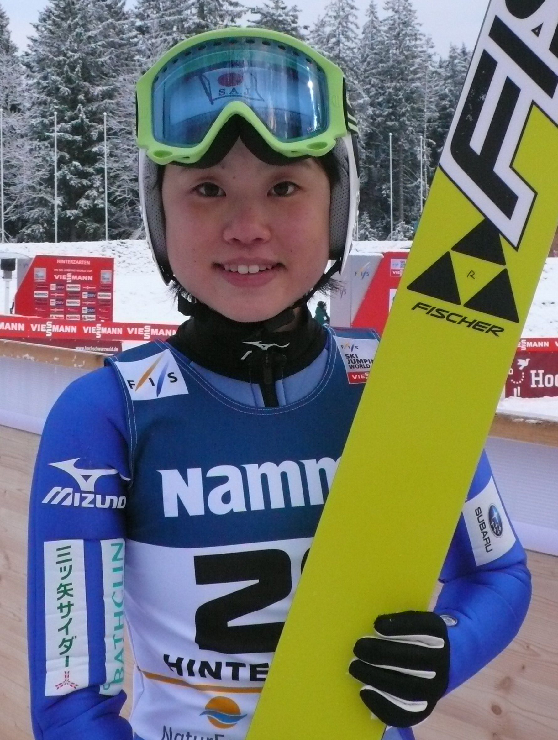 Yuki Ito